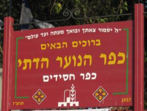 Sign at entrance to the Kfar Hassidim Youth Village